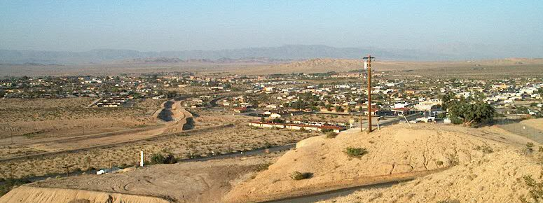 Northeast view of Twentynine Palms, California from Donnell Hill on the south side of town. Public domain image.